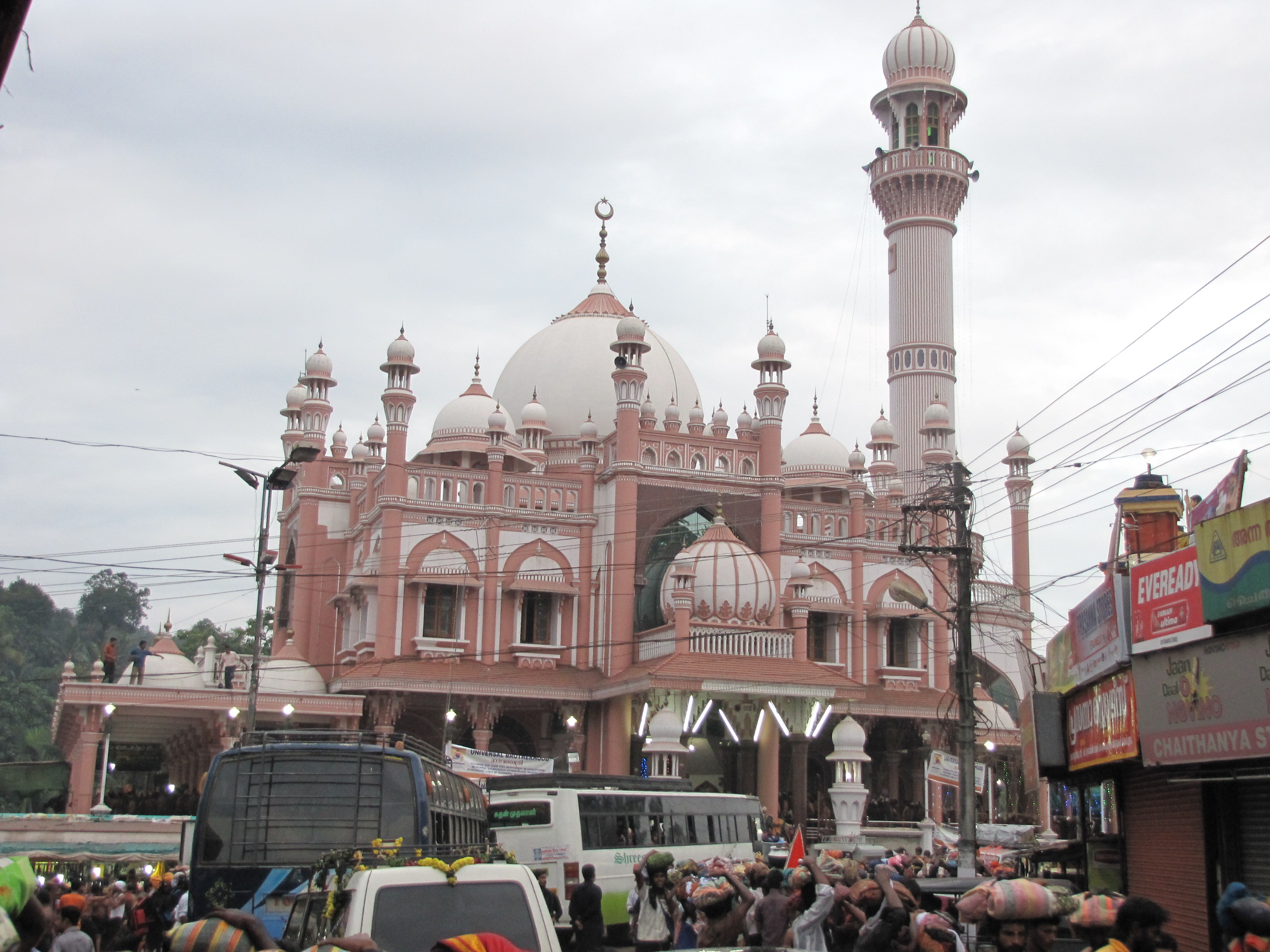 Erumely Nainar Juma Masjid